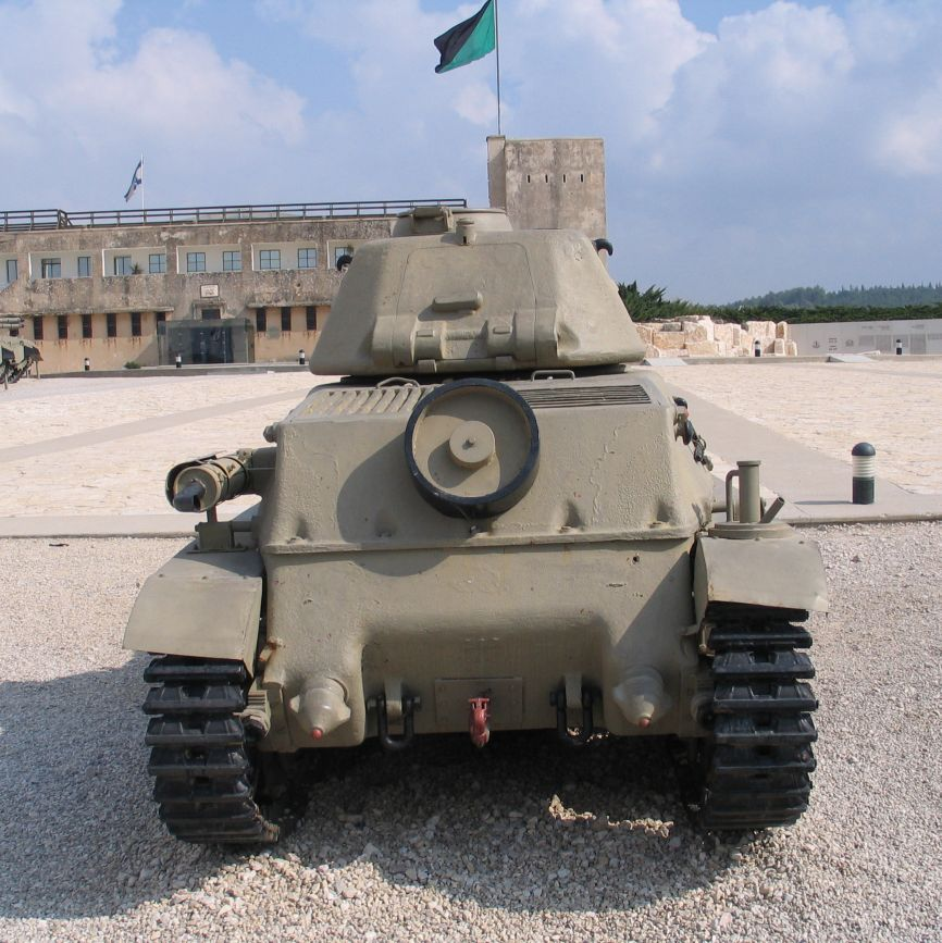 Description: Hotchkiss H-39 light tank in Yad la-Shiryon Museum, Israel. 2005. Source: Photo by me, User:Bukvoed